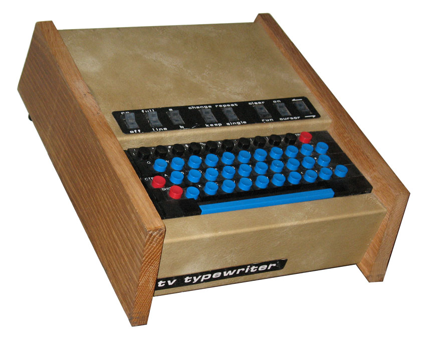 TV Typewriter prototype by Don Lancaster. The TV Typewriter was a video terminal that could display 2 pages of 16 lines of 32 upper case characters on a standard television. The design was featured on the cover of the September 1973 issue of Radio-Electronics magazine. This prototype is shown on page 45. This TV Typewriter is on display at the Computer History Museum in Mountain View, California. The photo was taken on November 5, 2006 by Michael Holley. The camera was a Cannon PowerShot A630. The background was removed with Adobe Photoshop Elements 3.0